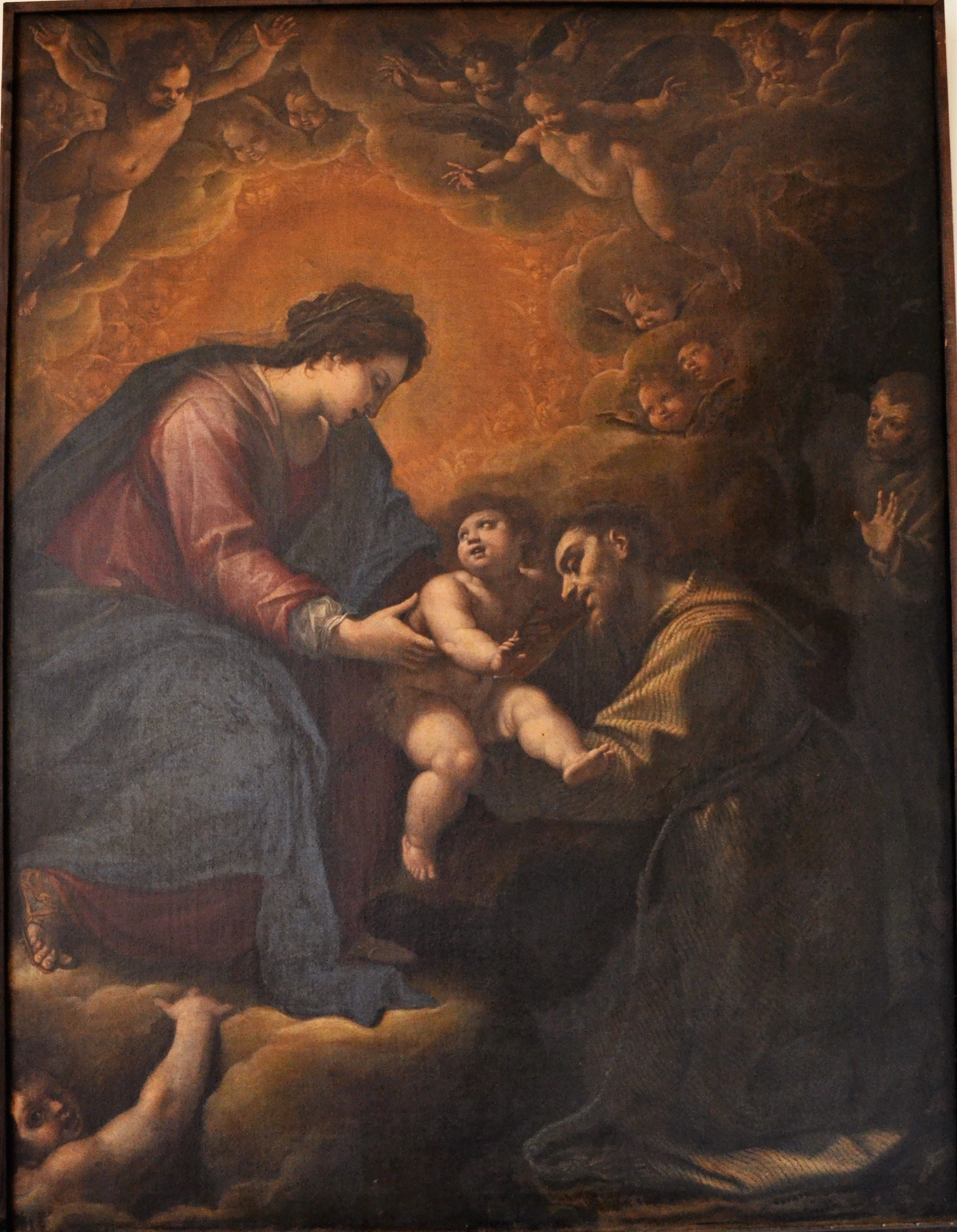 Madonna and Child and San Francesco